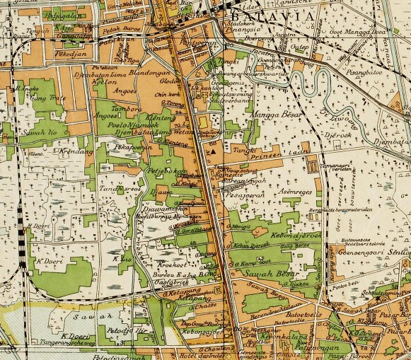 Peta Trayek Kereta Api pada 1919